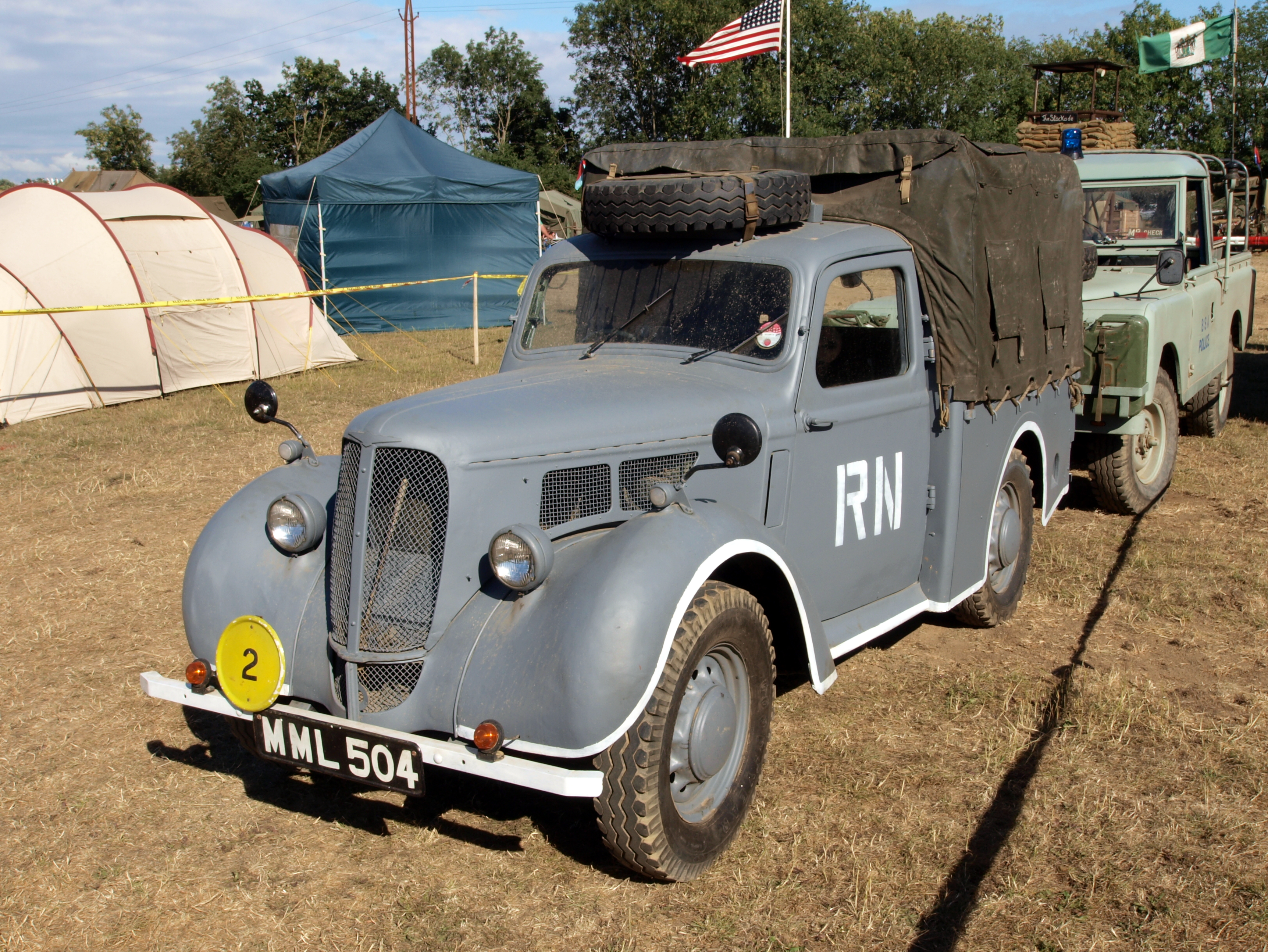 Hillman 10hp light utility